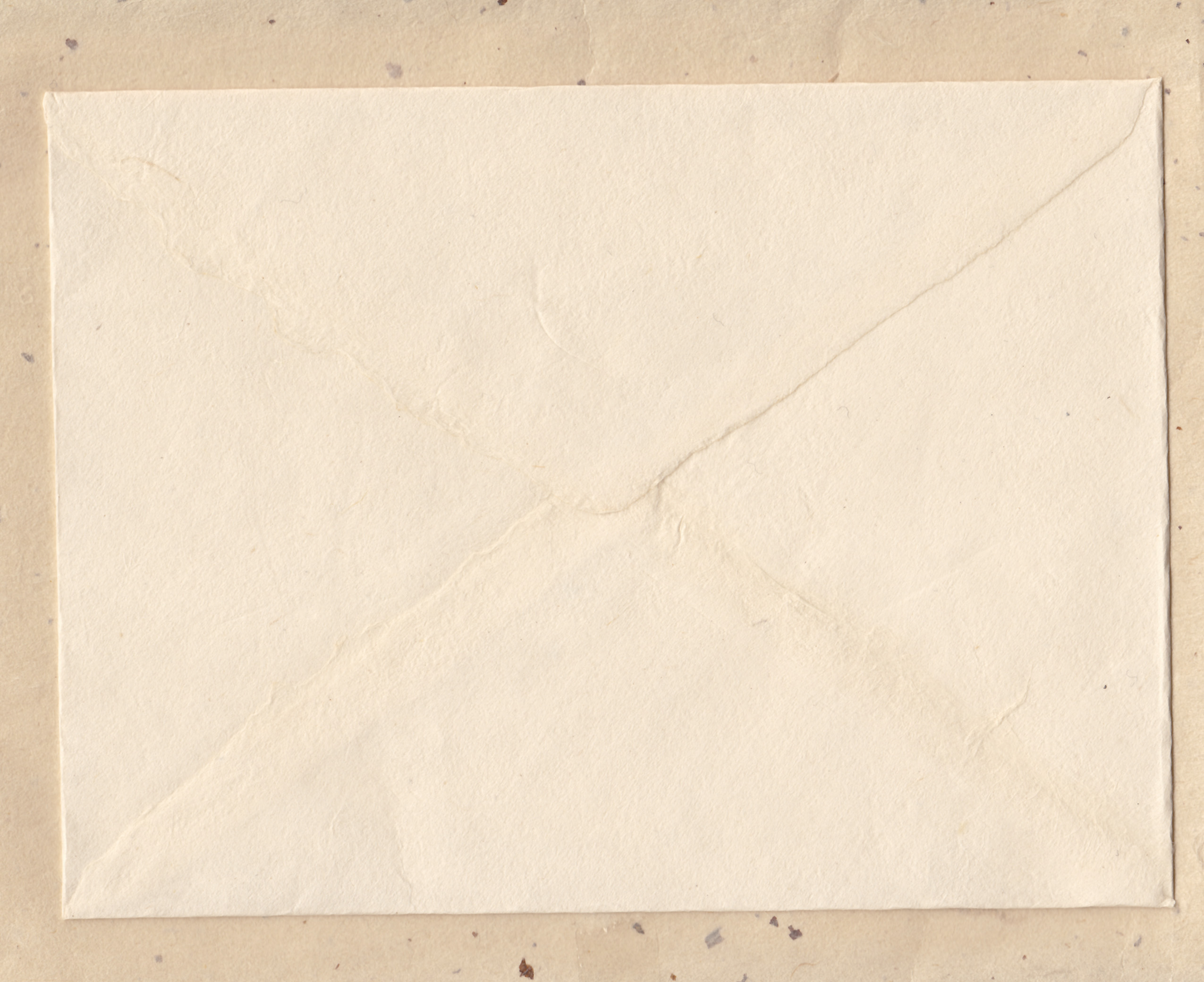 "Shiroishi washi" envelope. Traditional Japanese paper. Shiroishi city, Miyagi pref, Japan. Craftsman: Ms. ENDOH Mashiko